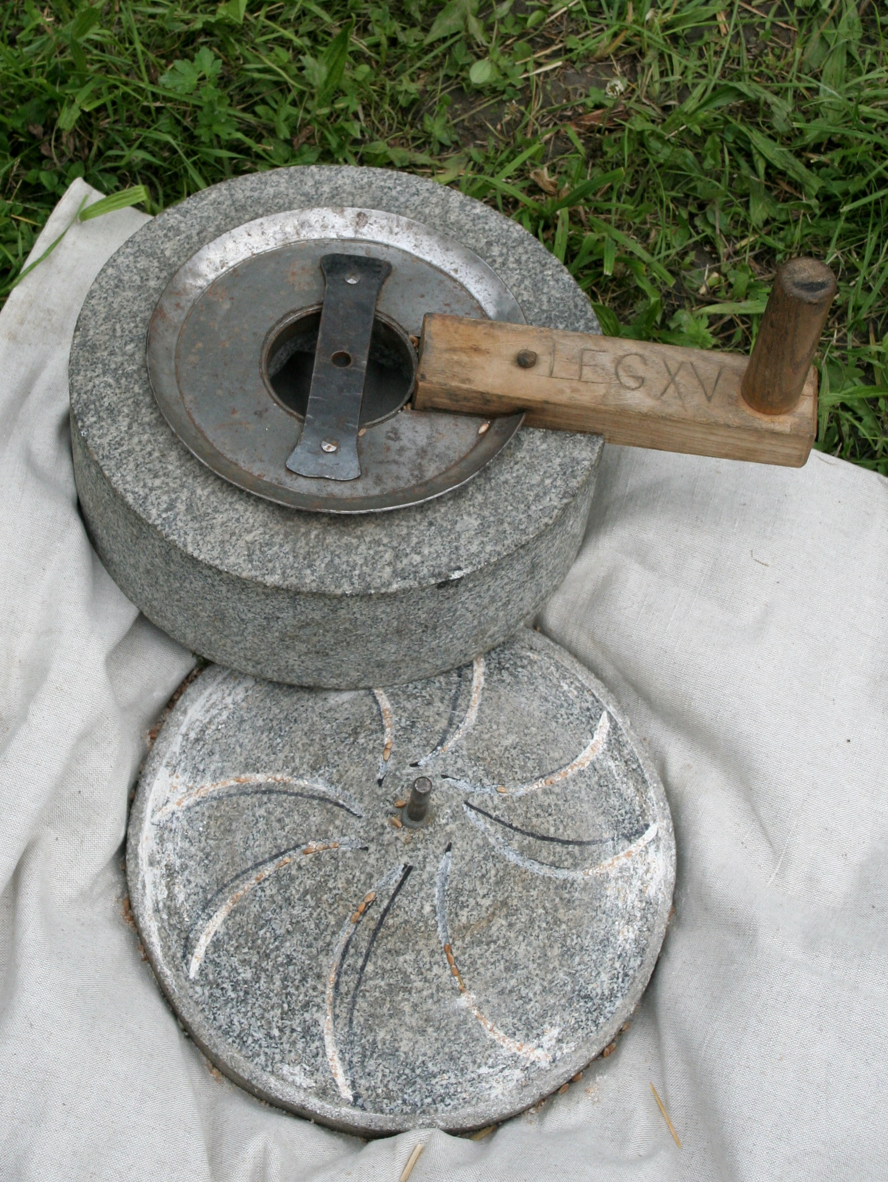 Roman handmill, for more details have a look at Image:Roman_handmill_from_first_century_closeup.jpg Photographed by myself during a show of Legio XV from Pram, Austria